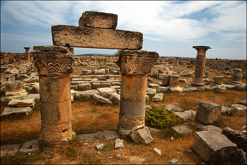 Temple columns Asclepium in Balagrae (Al Bayda City now)